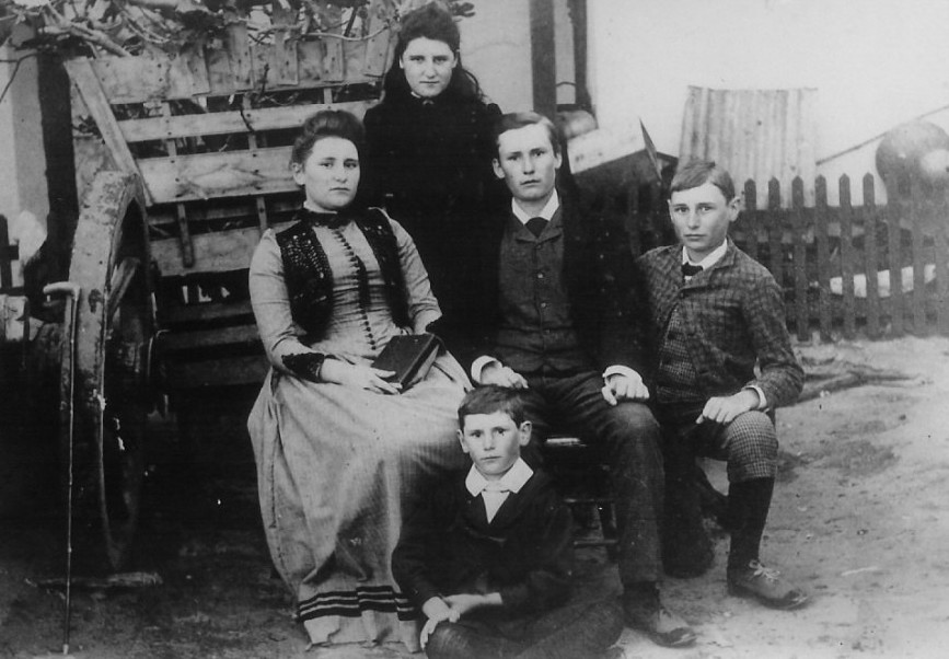 DF Malan Brothers and sisters